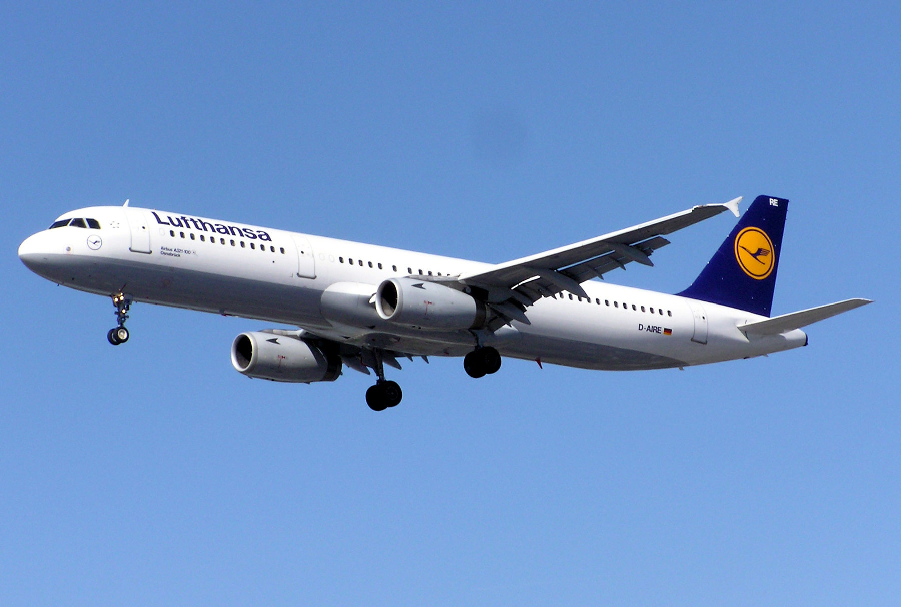 Lufthansa Airbus A321-100 (D-AIRE “Osnabrück” landing at London Heathrow Airport, England. Photographed by Adrian Pingstone in August 2004 and released to the public domain.